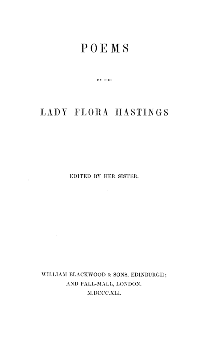 Title page of the book "Poems by the Lady Flora Hastings" edited by Sophia F. C. Hastings, published by William Blackwood and Sons, Edinburgh. OCLC 1049072964